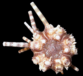 Picture of Eucidaris metularia